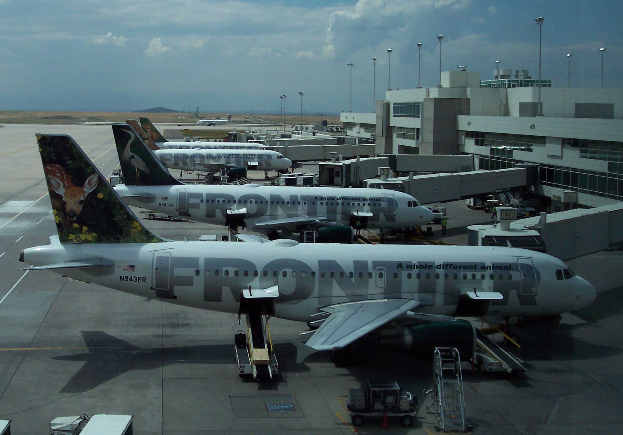 Row of Frontier Airplanes at Denver International Airport